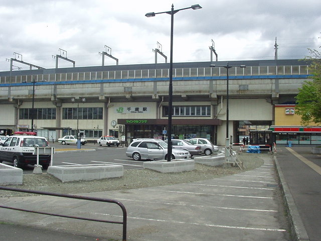 East side of Chitose Station in Chitose Line. Chitose, Hokkaidō, Japan.